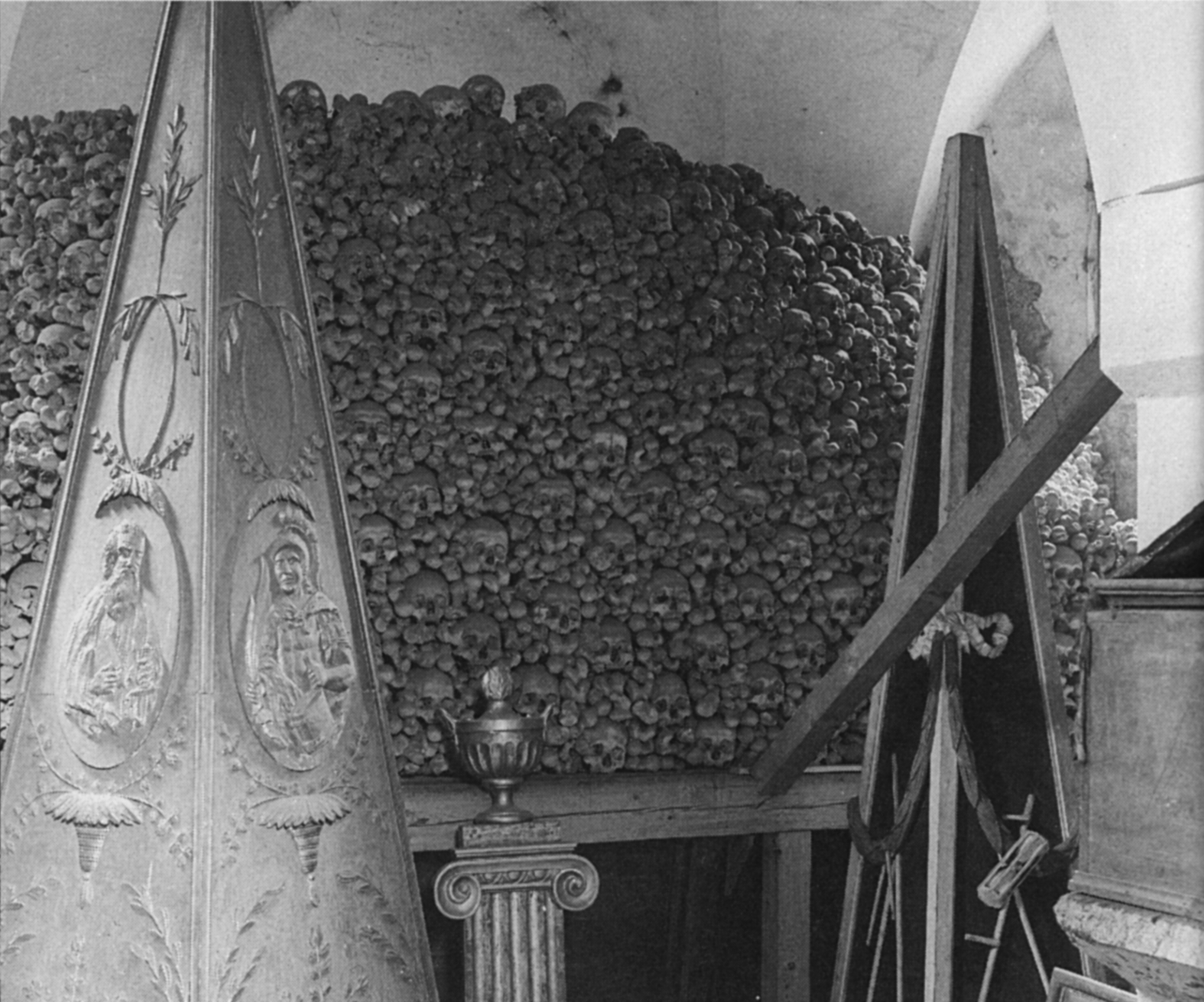 Petschar, Friedlmeier, Steiermark in alten Fotografien, Ueberreuther Verlag Wien. Scanprojekt Community Projektbudget 2012 This scan or this PDF-file was created within the GLAM-project Bookscanning, supported by Wikimedia Germany and Wikimedia Austria as a part of the community-project to capture books, documents and pictures which are not eligible to copyright or for which the copyright has expired. This document describes or depicts an object which is located in Austria today. Texts are written German language. Send requests for uncompressed scans to Hubertl. This work is in the public domain in its country of origin and other countries and areas where the copyright term is the author's life plus 100 years or less. You must also include a United States public domain tag to indicate why this work is in the public domain in the United States. This file has been identified as being free of known restrictions under copyright law, including all related and neighboring rights.